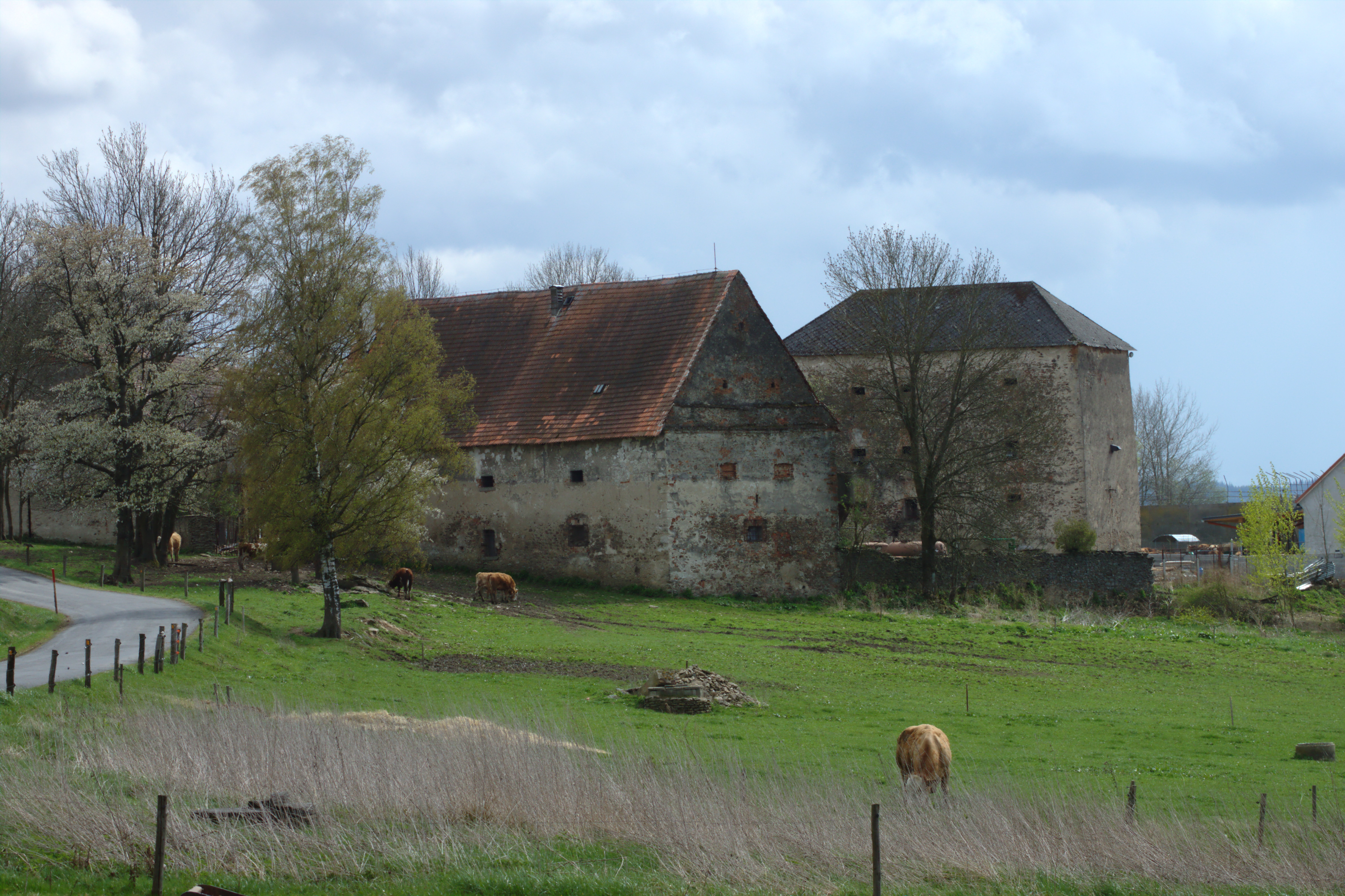 Kratice fortification near Plánice, CZ